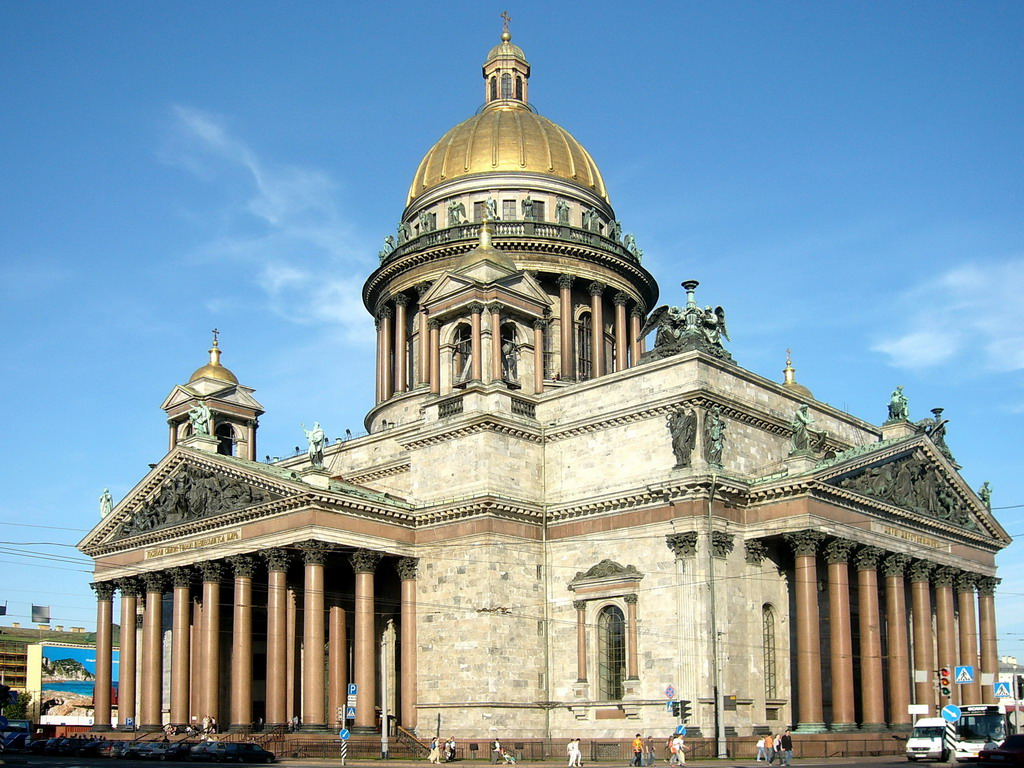 Saint Isaac's Cathedral photograph by Evgeny Gerashchenko.